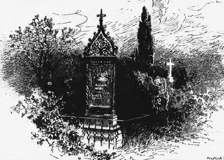 The tomb of František Jaromír Rubeš in Skuteč